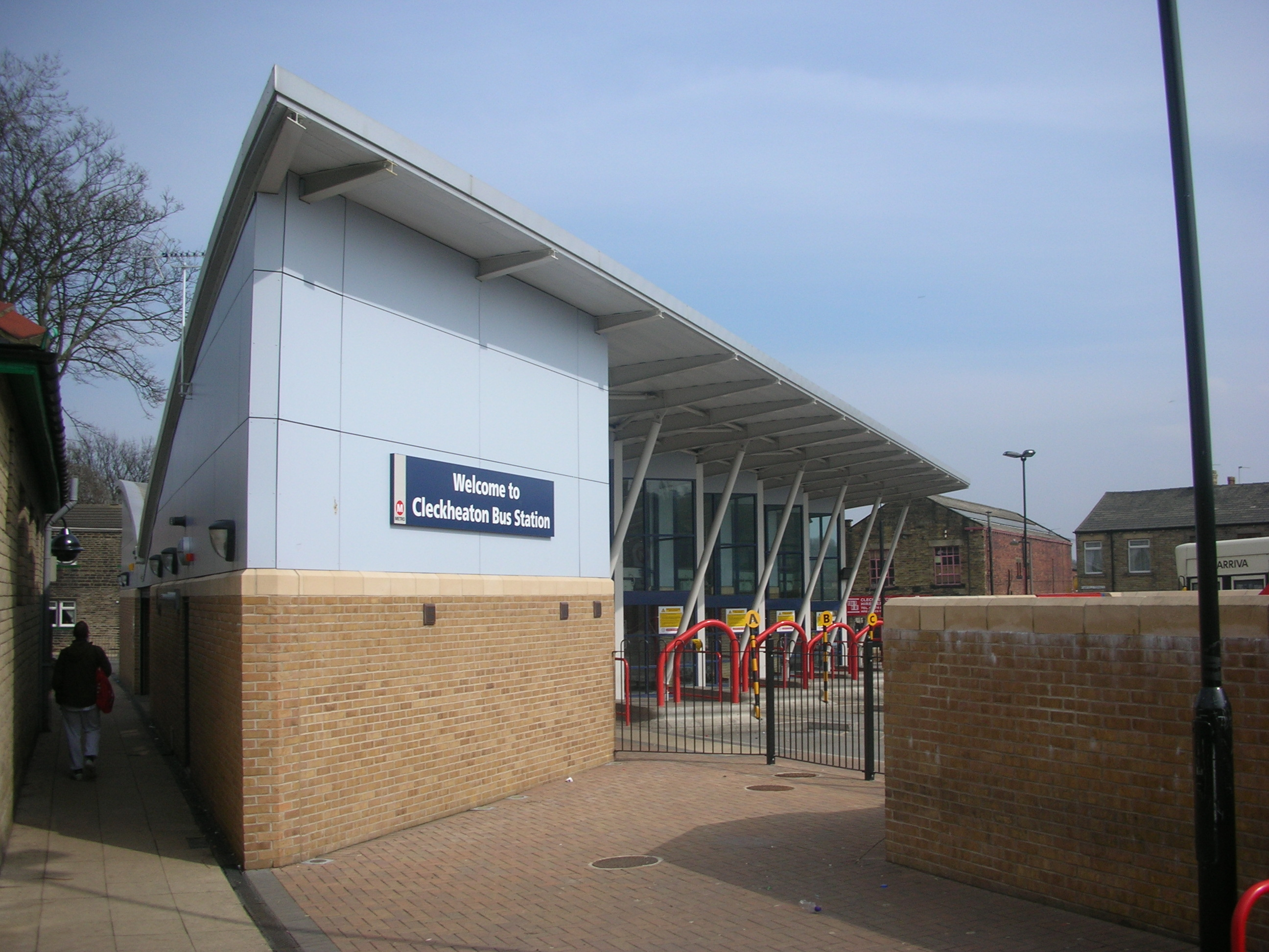 The normal foreshortening is exaggerated by the trapezoidal shape of this building.